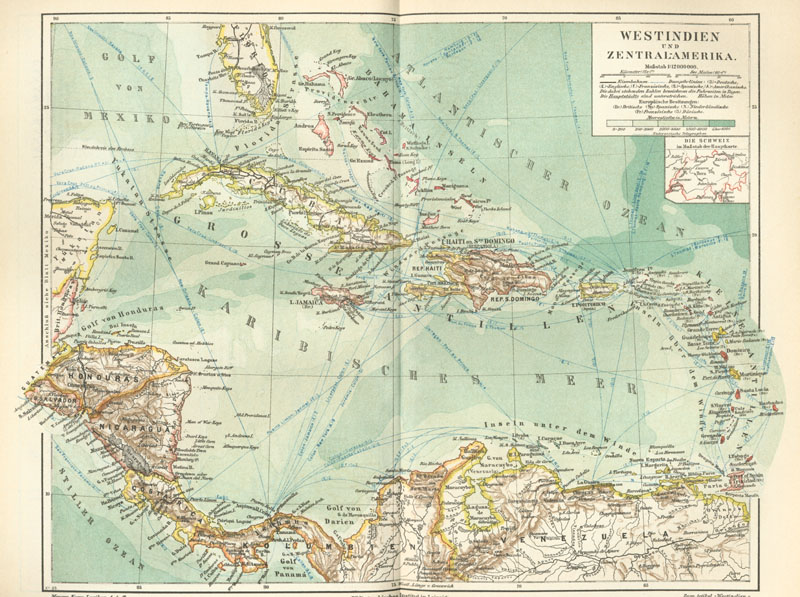 This is page 558 of 1026, in Volume 16 of the German illustrated encyclopedia Meyers Konversationslexikon, 4th edition (1885-1890), fraktur font.